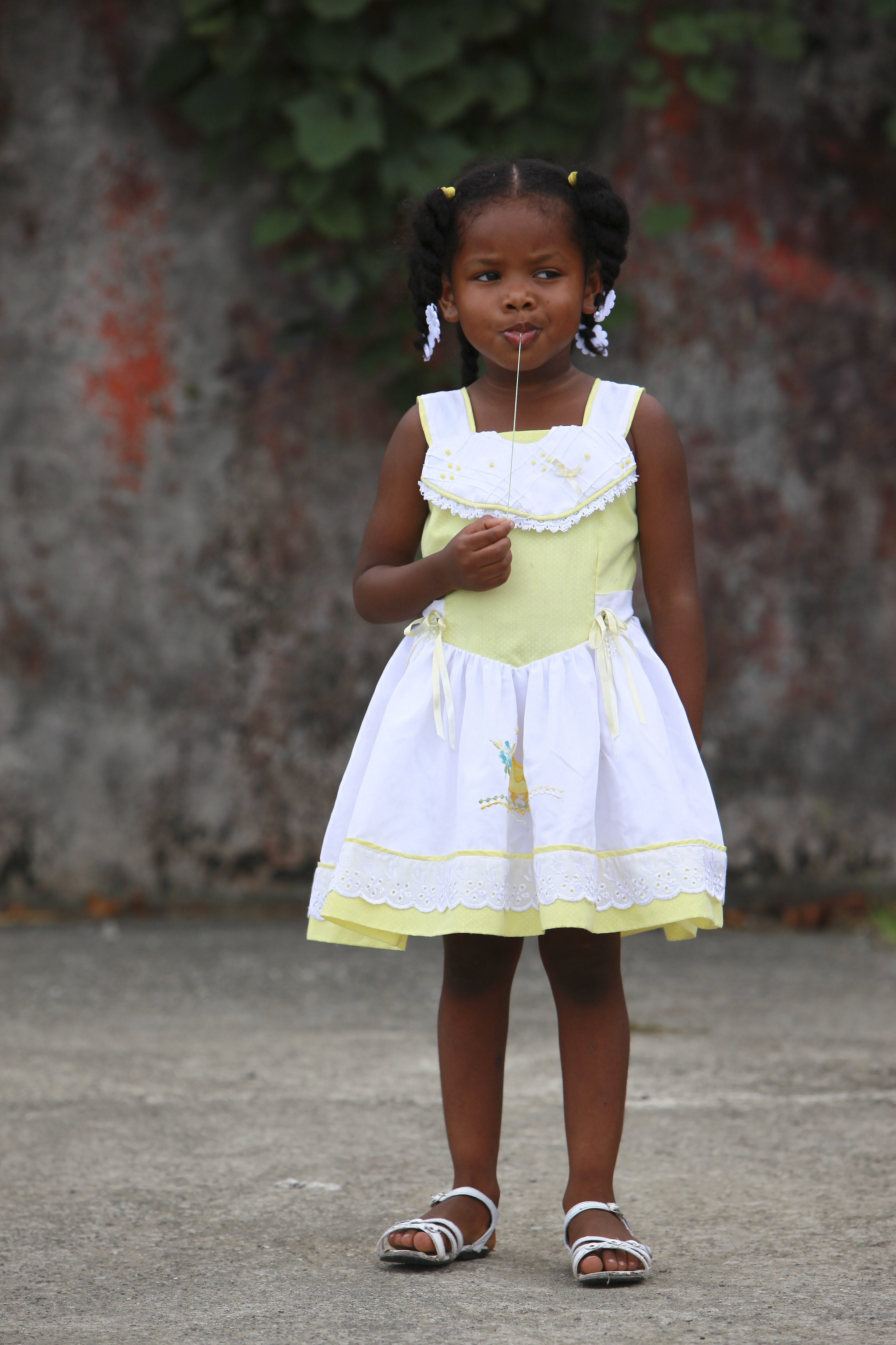 A Costa Rican girl chews bubble gum while waiting to receive care at a medical site in Limon, Costa Rica, Aug. 22, 2010, during Continuing Promise (CP). U.S. Service members and civilians were deployed in support of CP to provide humanitarian assistance and disaster relief in the Caribbean, Central America and South America.